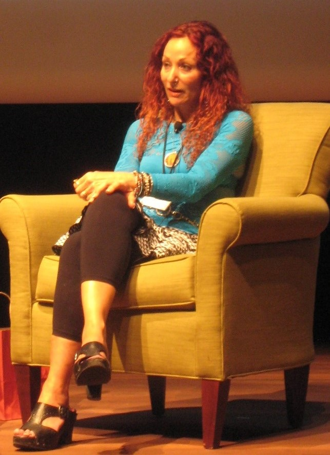 American comics artist Aline Kominsky-Crumb at the “Comics: Philosophy & Practice,” convention at the Gray Center, University of Chicago.